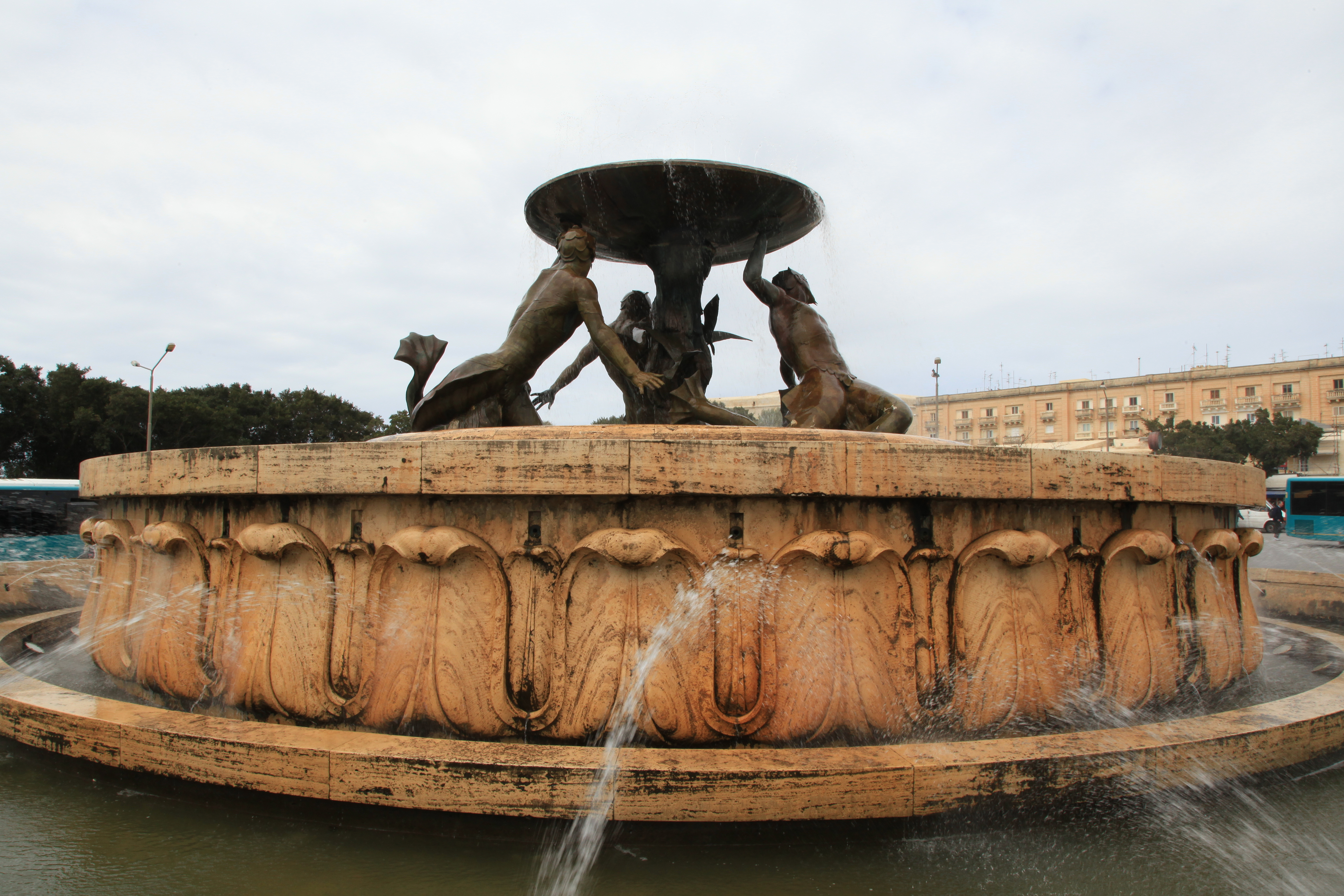 Triton Fountain at Vjal Nelson in Valletta, Malta